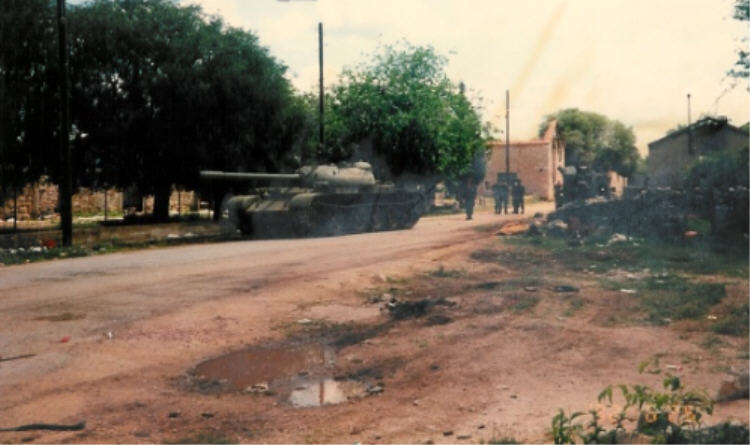 A Serbian T-55 tank destroyed by the Croatian Army in Širitovci on June 21, 1992.